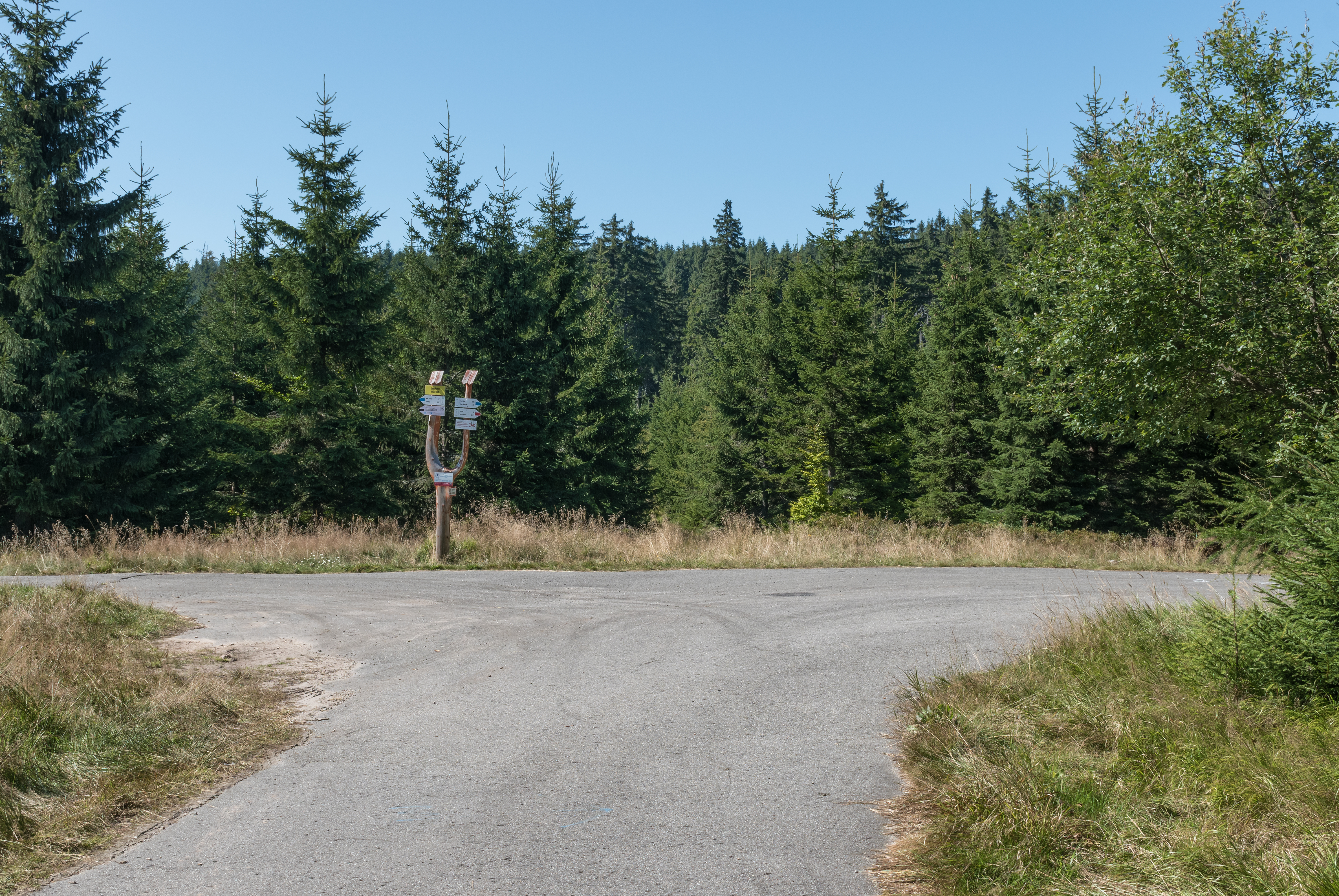 Sucha Pasa, Bialskie Mountains, Sudetes